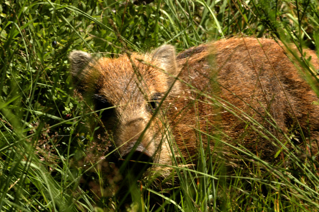 young Sus scrofa from Commanster, Belgian High Ardennes (50°15'20``N,5°59'58``E)